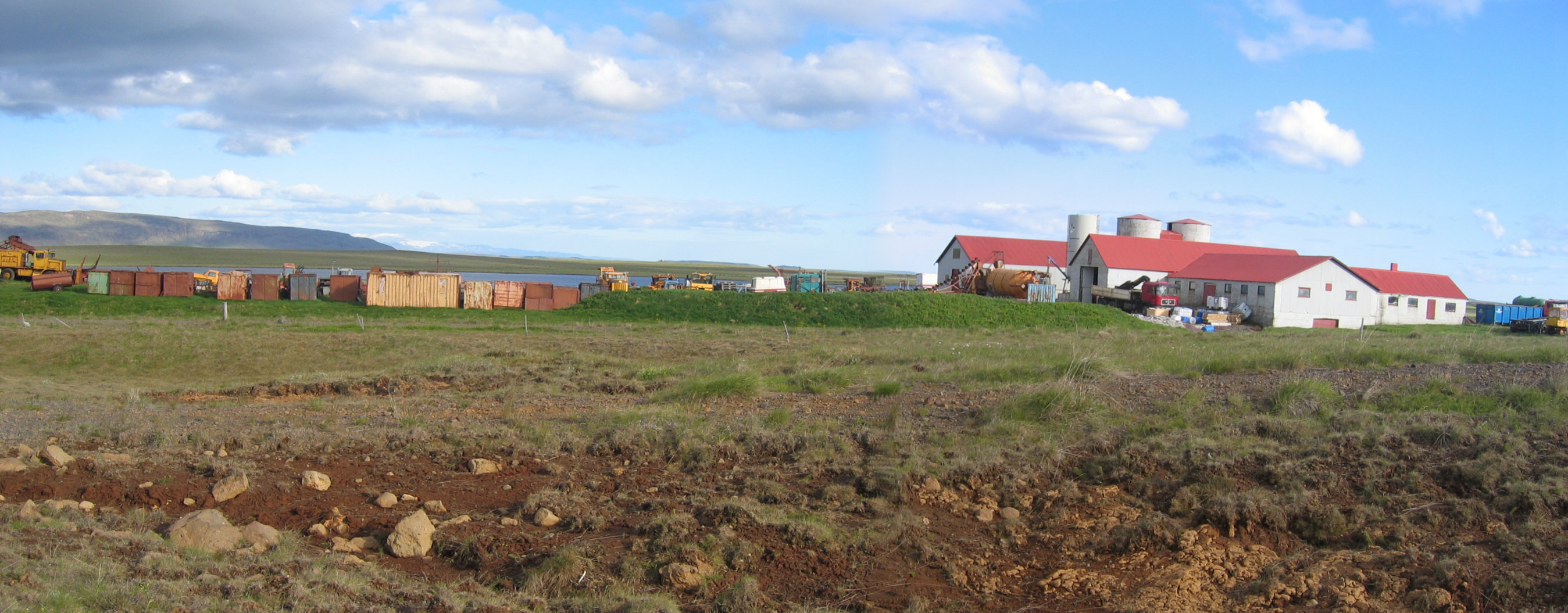 Icelandic farm Svínavatn í Grímsnesi. Farm house with containers in front of the lake.Photo by Salvor (two photos stiched together)